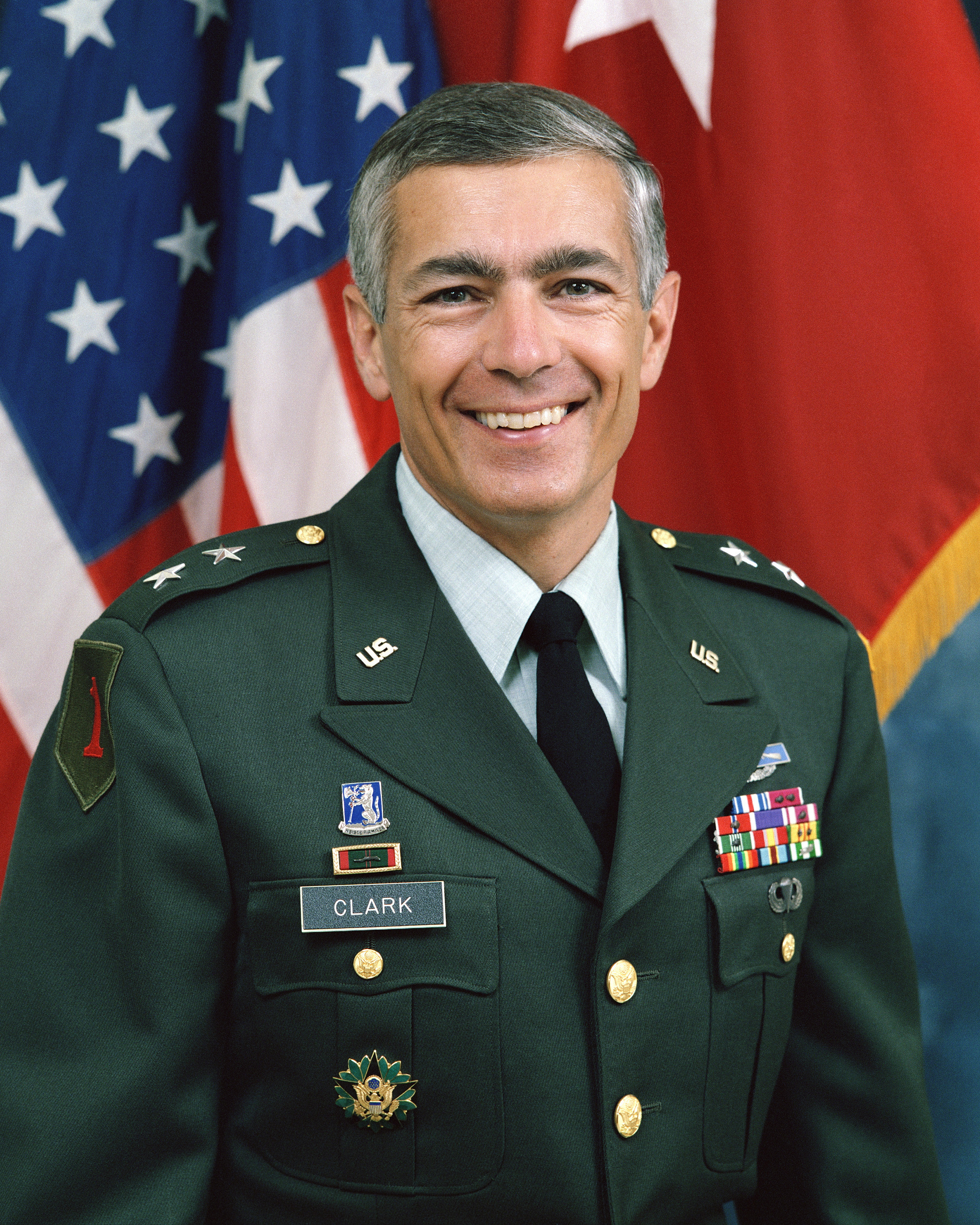 Wesley Clark as a major general.